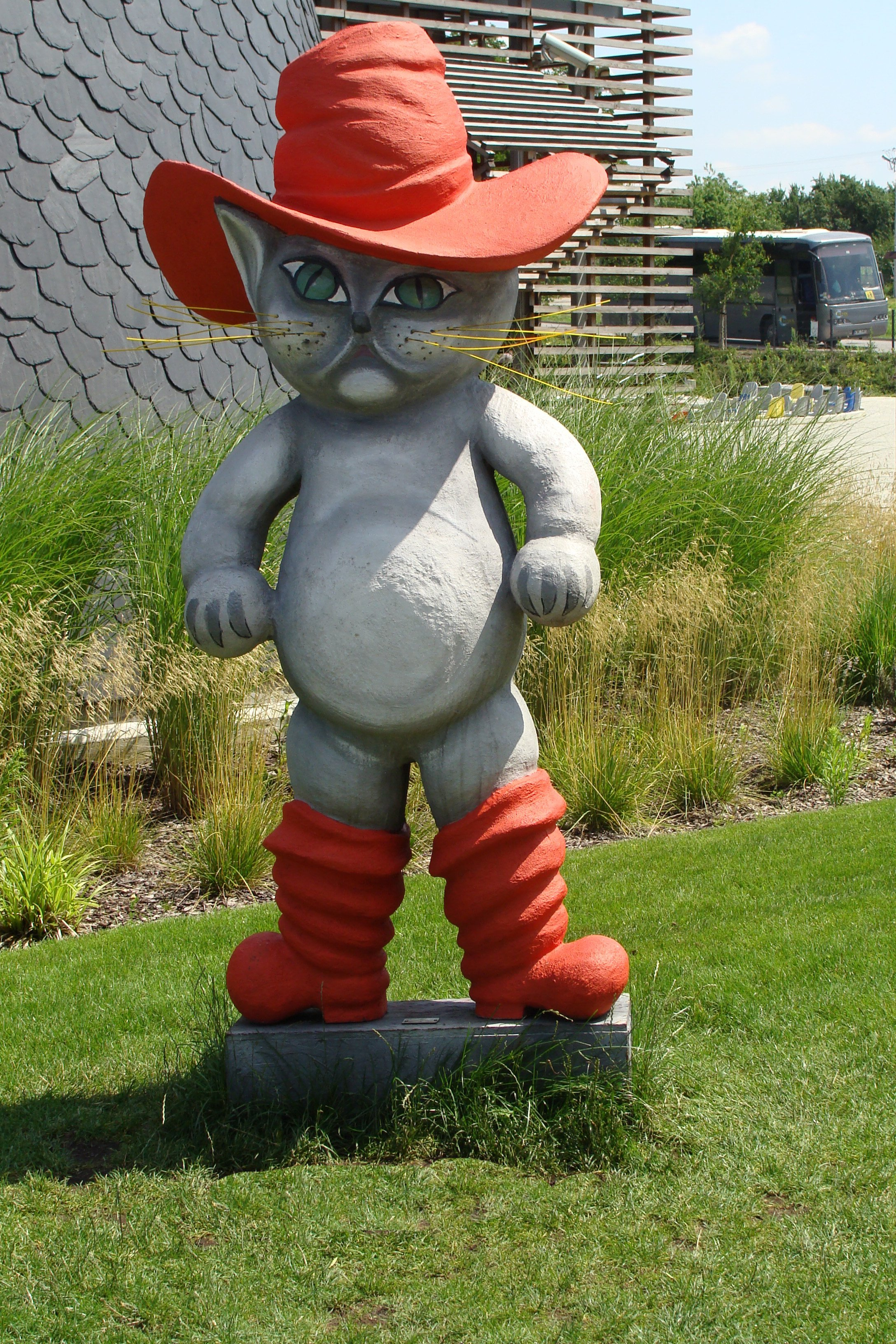 Puss in boots. European Tale Centre. Pacanów. Poland